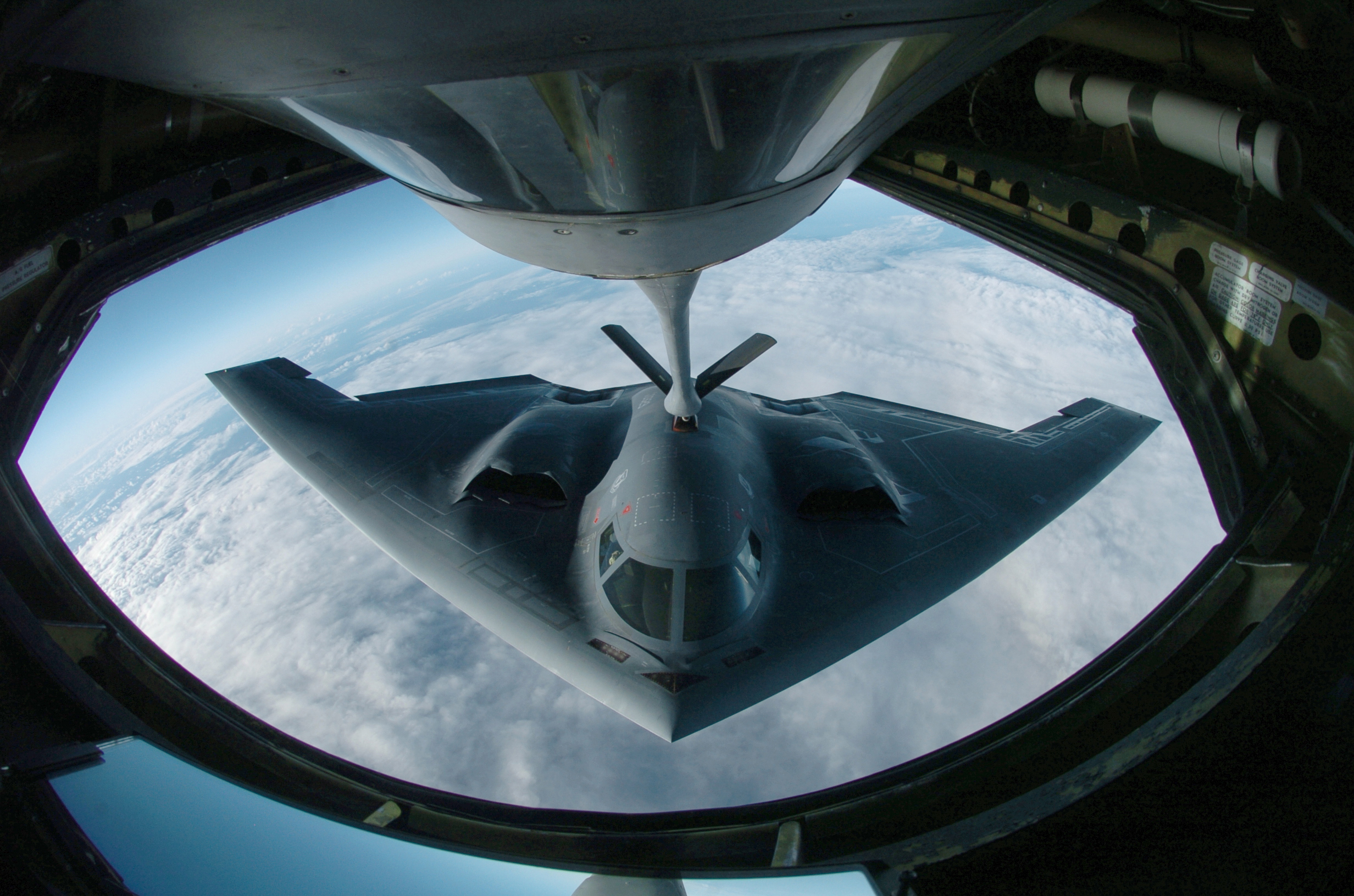 Fueling the Spirit OVER THE PACIFIC OCEAN -- A B-2 Spirit bomber refuels from a KC-135 Stratotanker here during a deployment to Andersen Air Force Base, Guam. The bomber deployed as part of a rotation that has provided U.S. Pacific Command officials a continuous bomber presence in the Asia-Pacific region, enhancing regional security and the U.S. commitment to the Western Pacific. The Spirit is from the 509th Bomb Wing at Whiteman AFB, Mo. The Stratotanker is assigned to the Illinois Air National Guard's 126th Air Refueling Wing at Scott AFB.